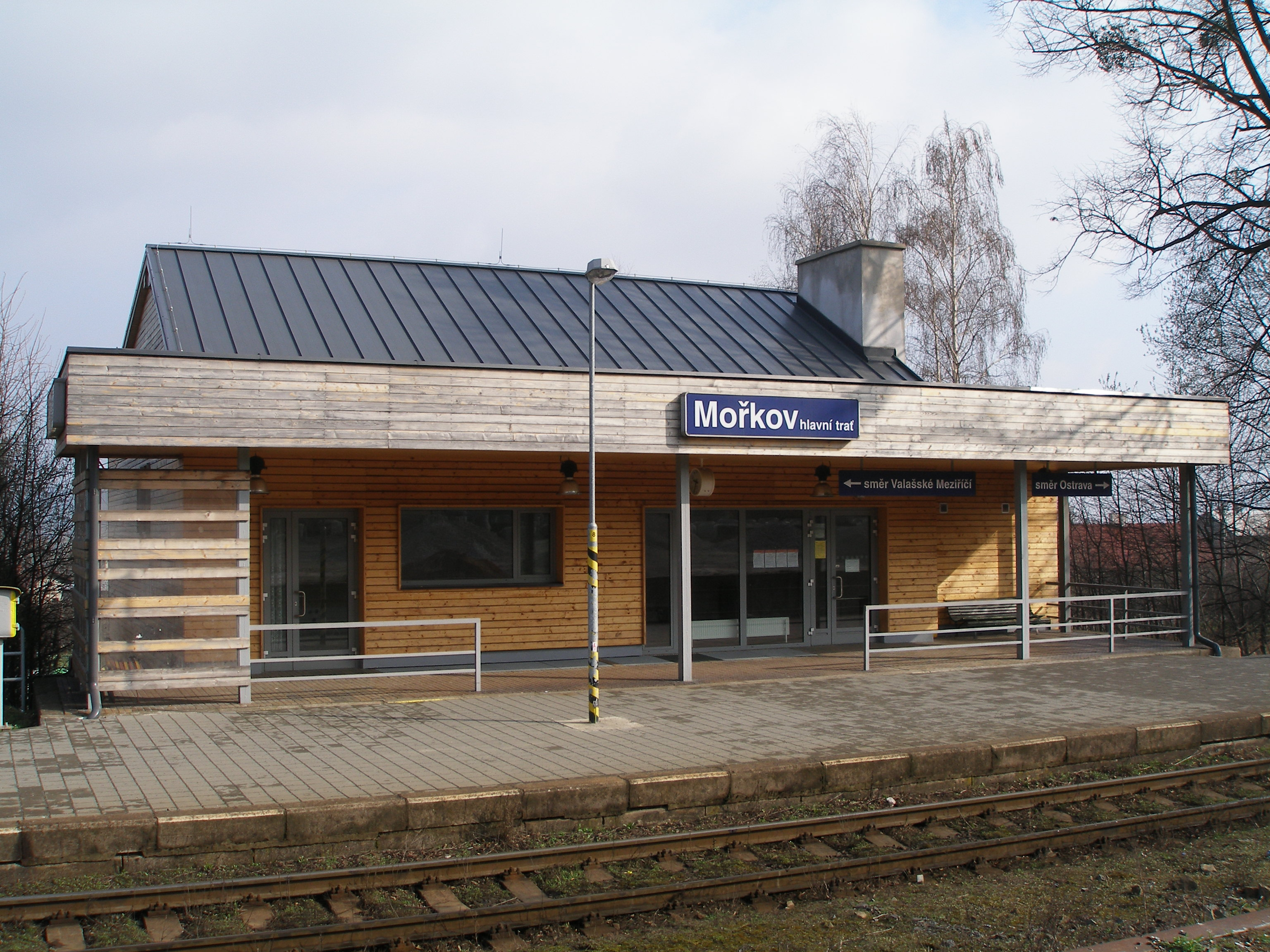 Railway station Mořkov hlavní trať.